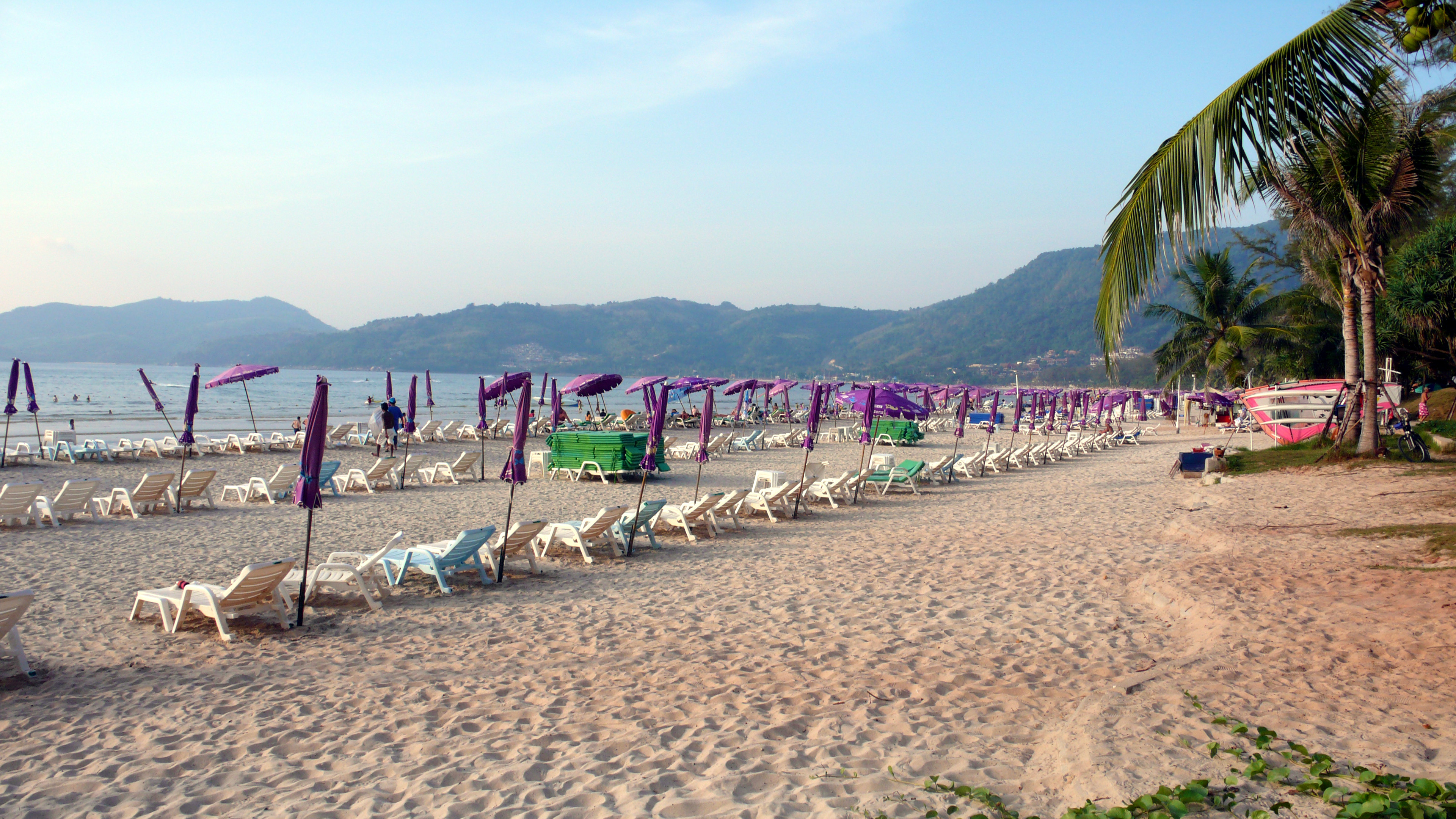 This beach reminds me of beaches in California: it faces West, it is surrounded by mountains, and the trees lining the beach road for the most part aren't palms, but some kind of fir trees. In fact, head North on the road out of Patong Beach and you could be on California's Highway 101. We found Patong beach much less inhabited by farang than is Pattaya . . . bummer that Thai Oil's refinery isn't here . . .